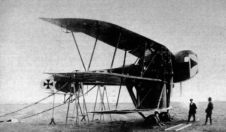 Photo of Lloyd 40.08 Luftkreuzer aircraft samf4u, 2.jpg